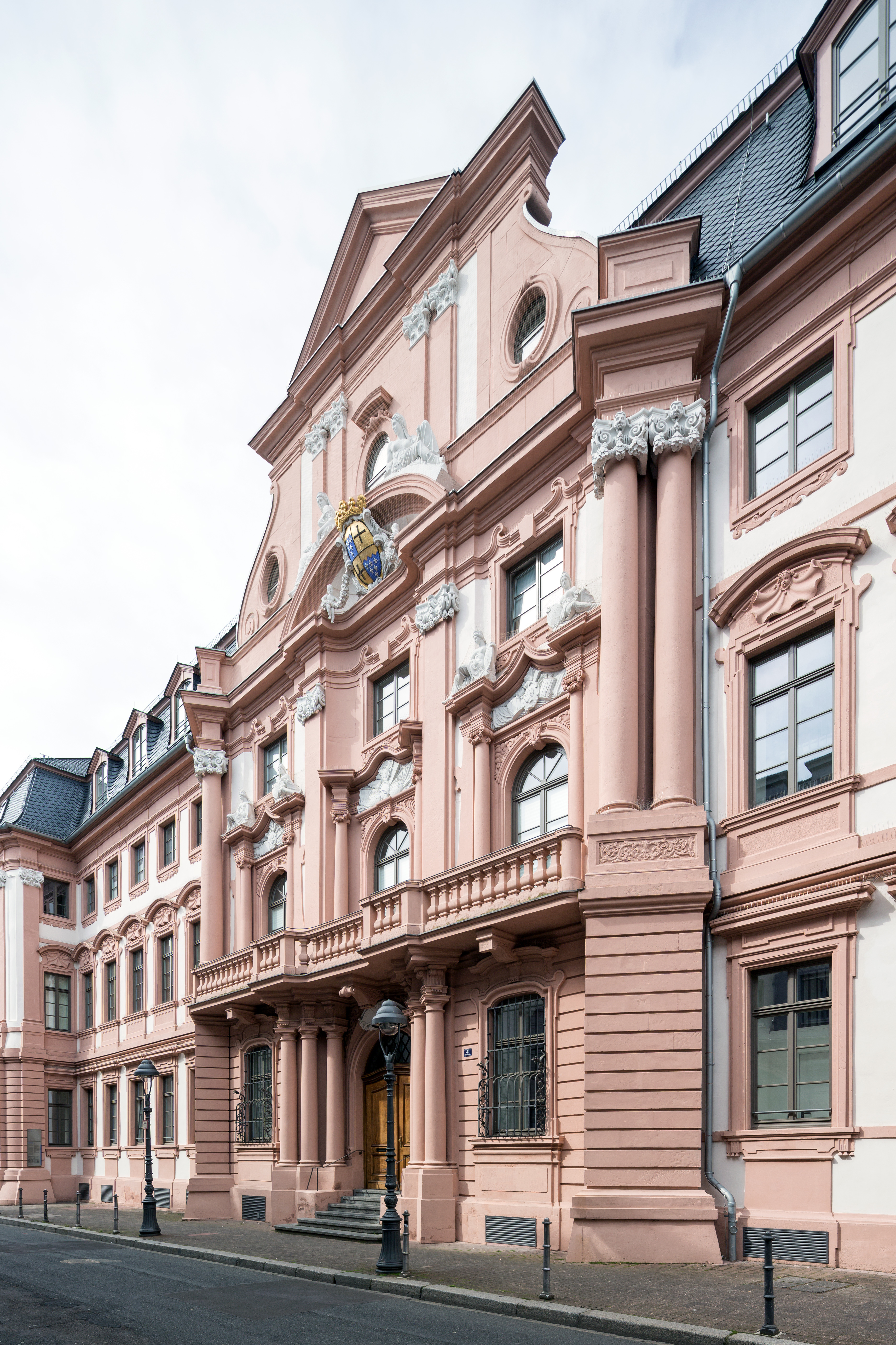 Mainz: Jüngerer Dalberger Hof (Younger Dalberg Court), central risalit at the Klarastraße (Klara Street) as seen from the southeast